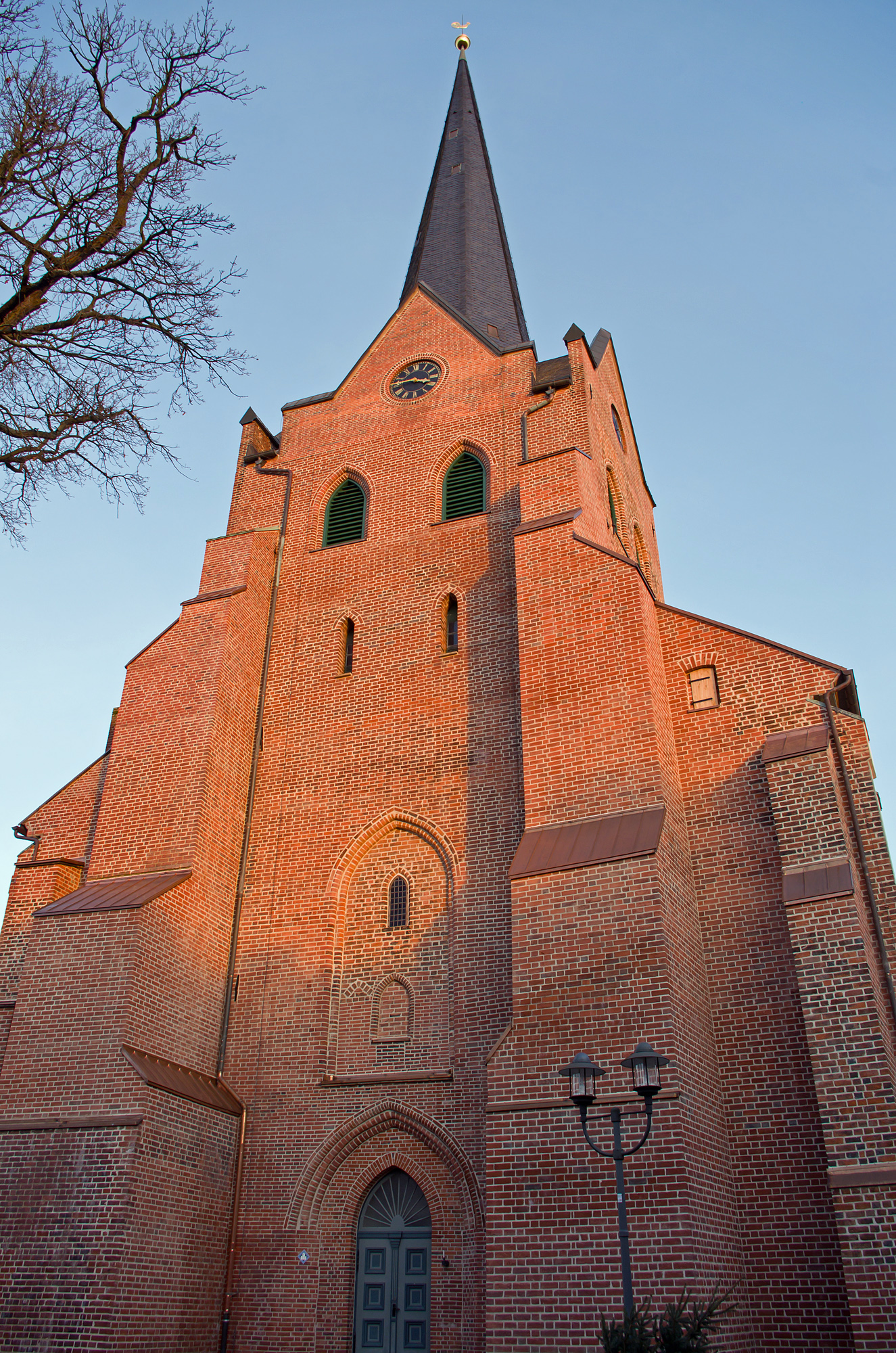 Church of the town Dannenberg (district Lüchow-Dannenberg, northern Germany).